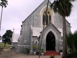 Picture taken by me at All Saints' Church, Pleasant Hall, Barbados